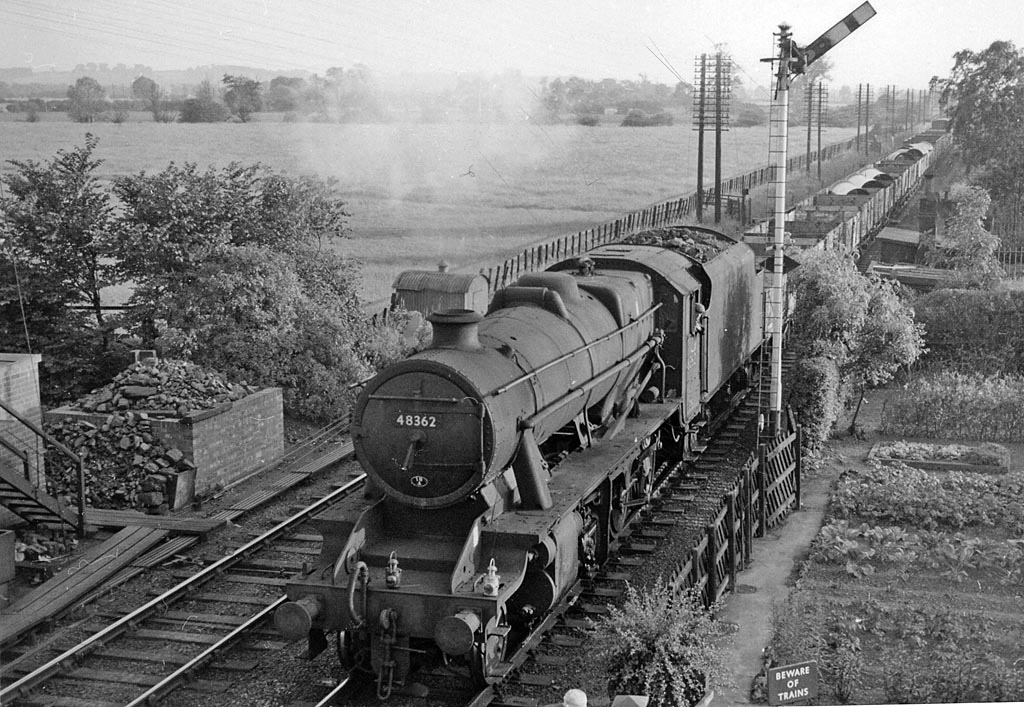 Down freight train approaching Attenborough Station. View SW, towards Trent, Derby, Leicester and the South; ex-Midland Derby - Nottingham main line, connecting at Trent with London - Leicester - Sheffield trunk line. The train is a Class F, headed by Stanier 8F 2-8-0 No. 48362.